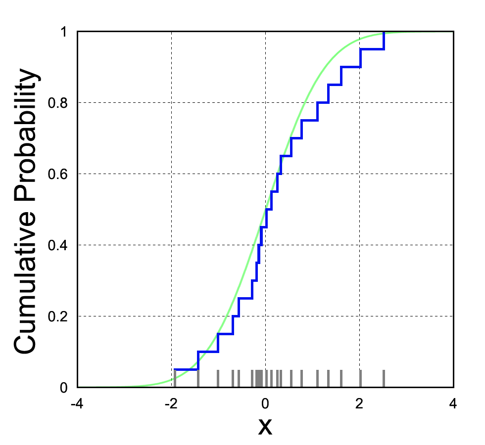 A visualization of an Empirical distribution function. The grey bars show the samples corresponding to the ECDF and the green curve is the theoretical distribution from which the samples have been drawn.